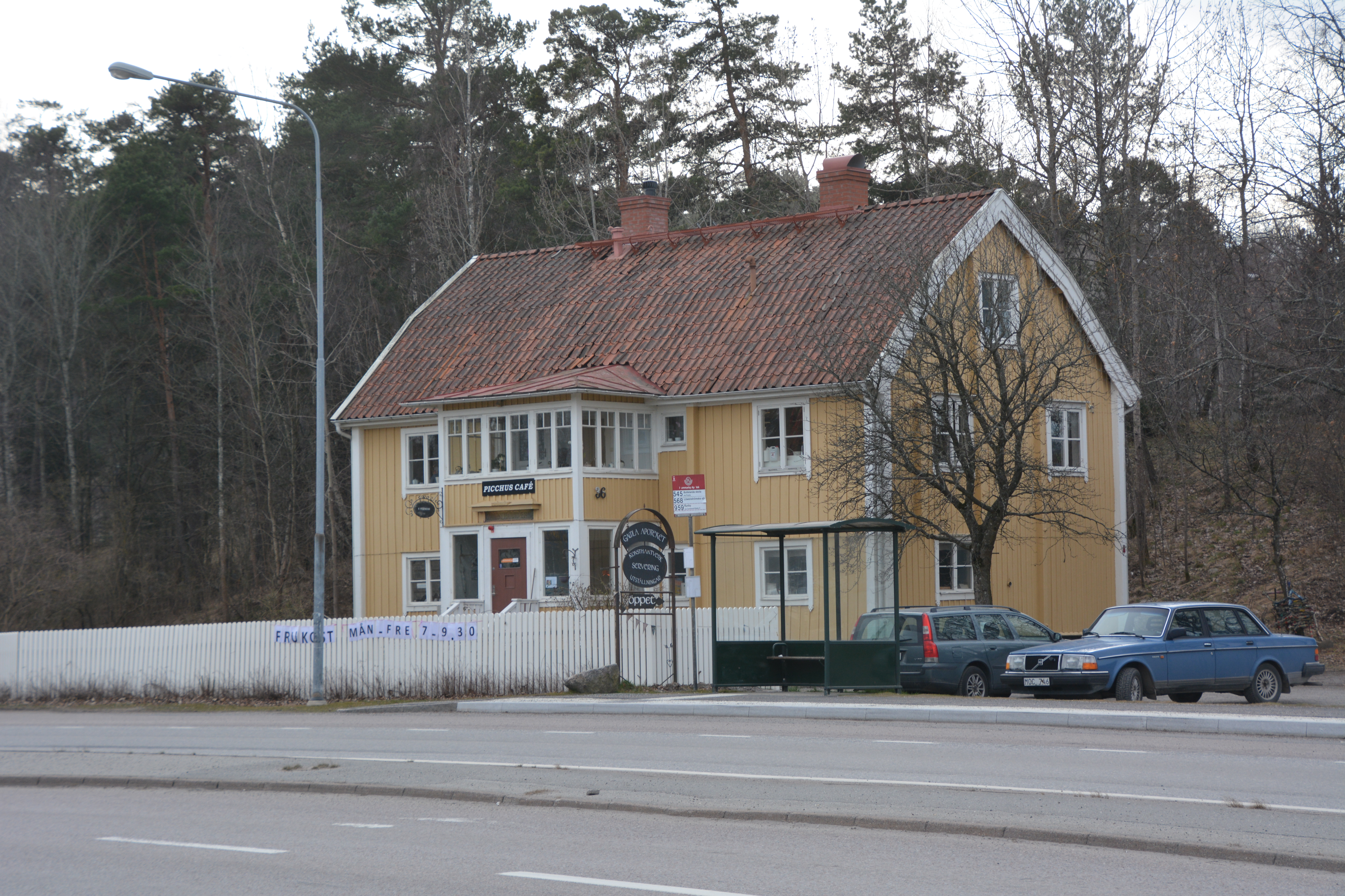 Hammarby Pharmacy, Upplands Väsby, Sweden